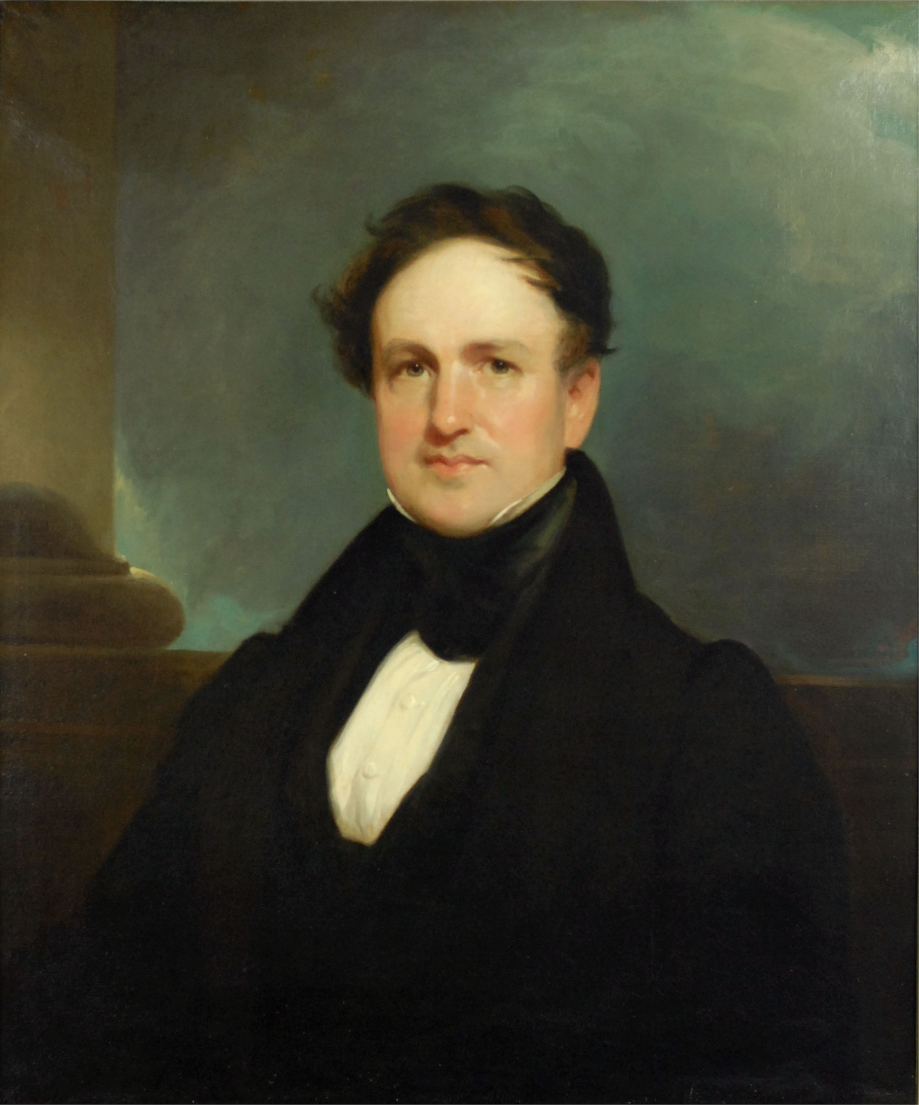 1979.84.3 Benjamin Chew Howard (1794-1872) Oil on canvas, ca. 1818. Attributed to Henry Inman (1801-1846) Screen 44B